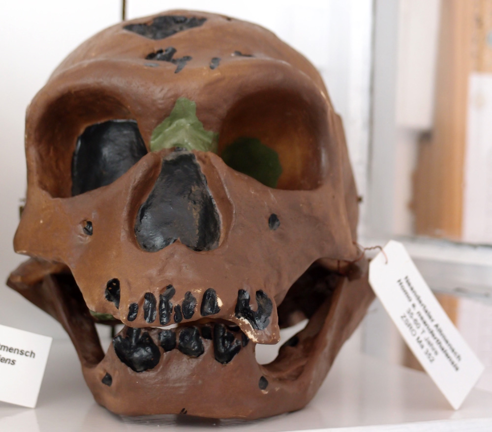 Model from the zoological collection Rostock, Germany. see also for more information on the models